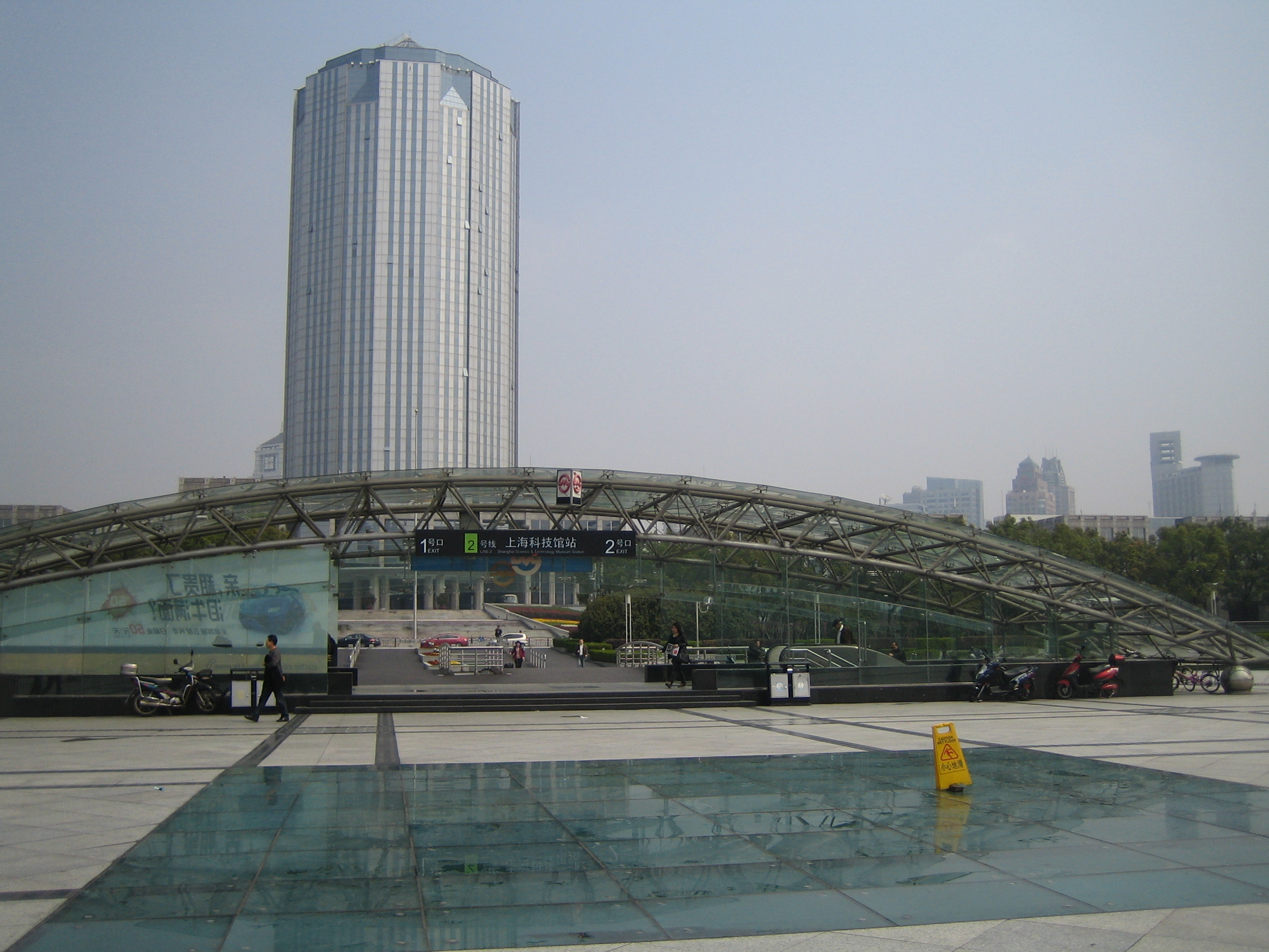 Exit of Shanghai Science & Technology Museum Station, Shanghai Metro.